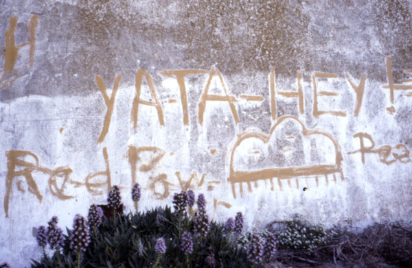 “Yata-hey, Navajo greeting with Rain Cloud” Golden Gate National Recreation Area, GOGA-2438b